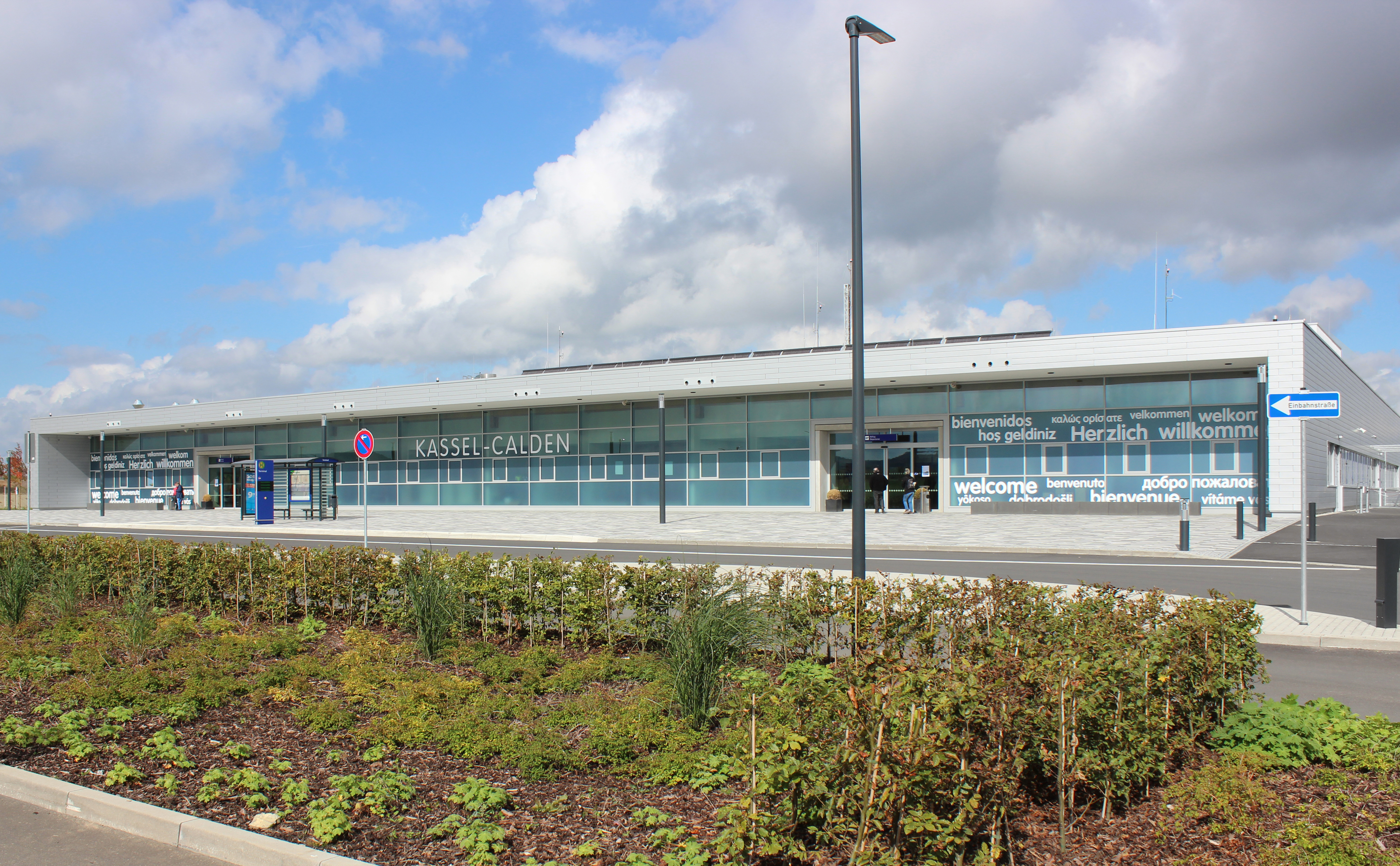 Terminal of Kassel Airport (KSF).